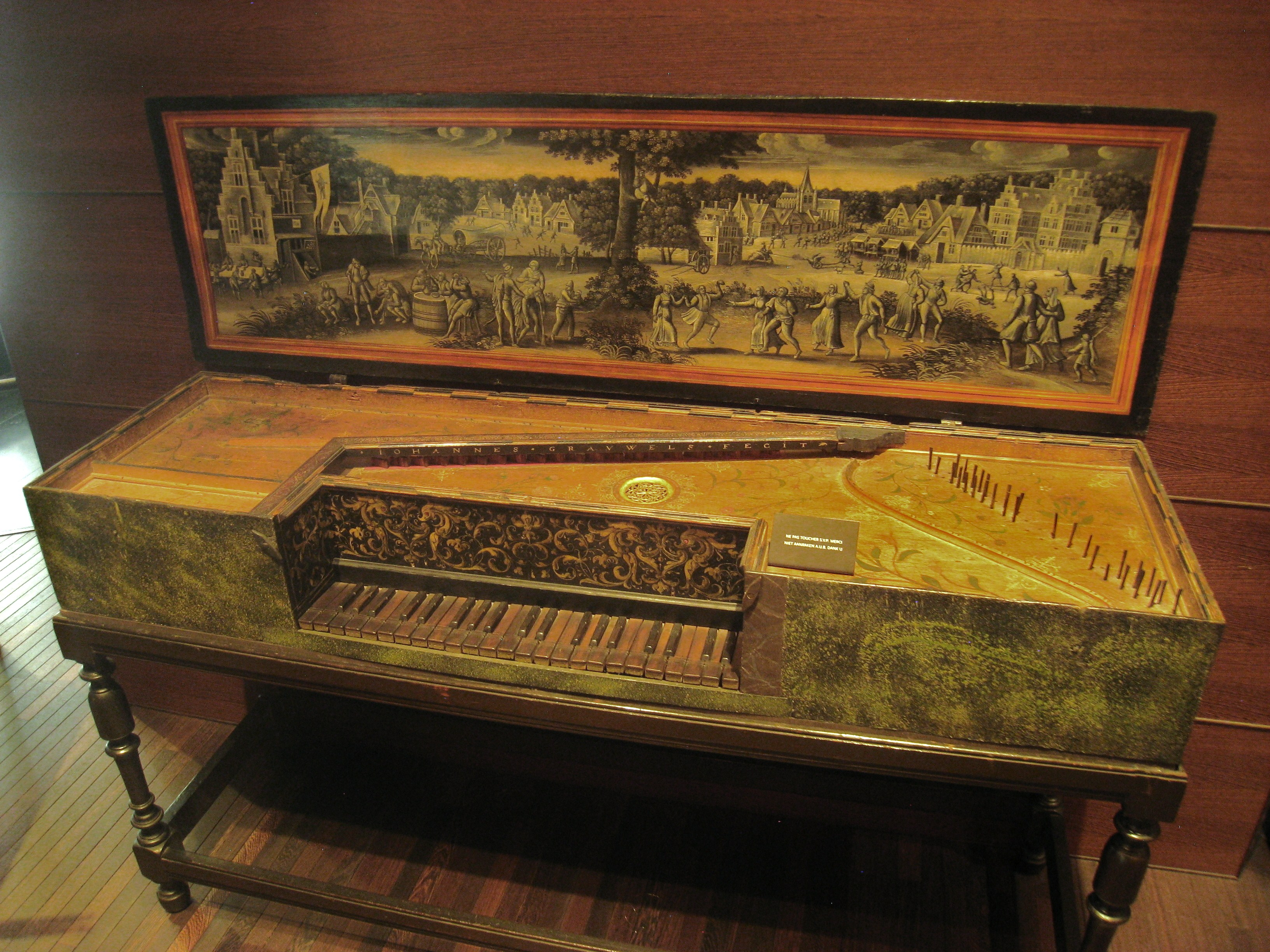 Keyboard instrument in the Musical Instrument Museum, Brussels, Belgium. Joannes Grauwels, Antwerp, ca. 1580 - virginal.